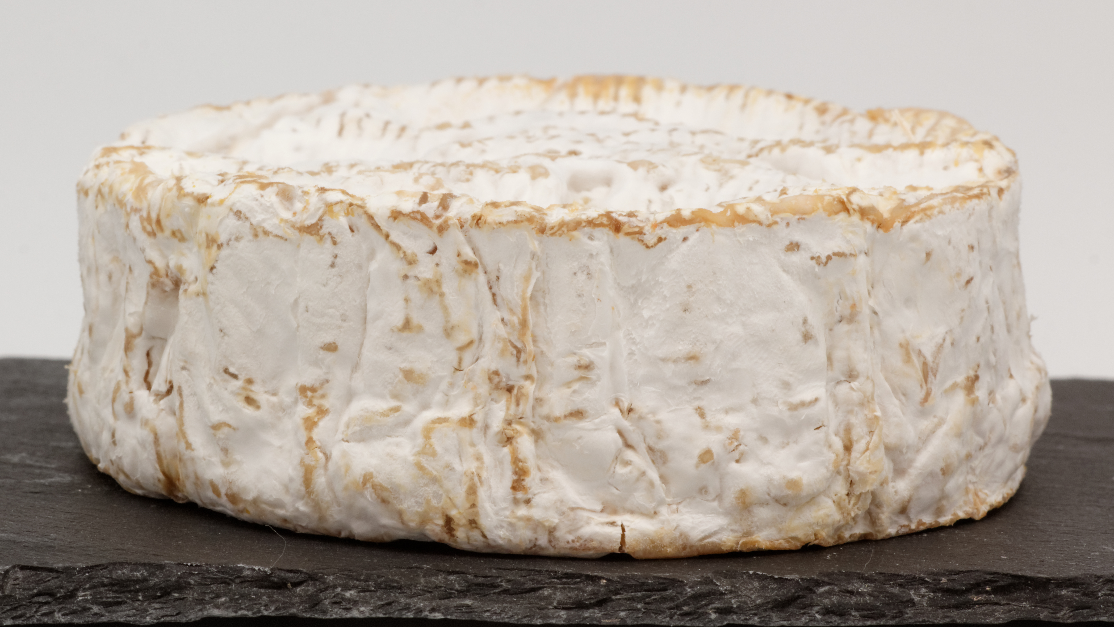 Camembert de Normandie (Protected Designation of Origin)